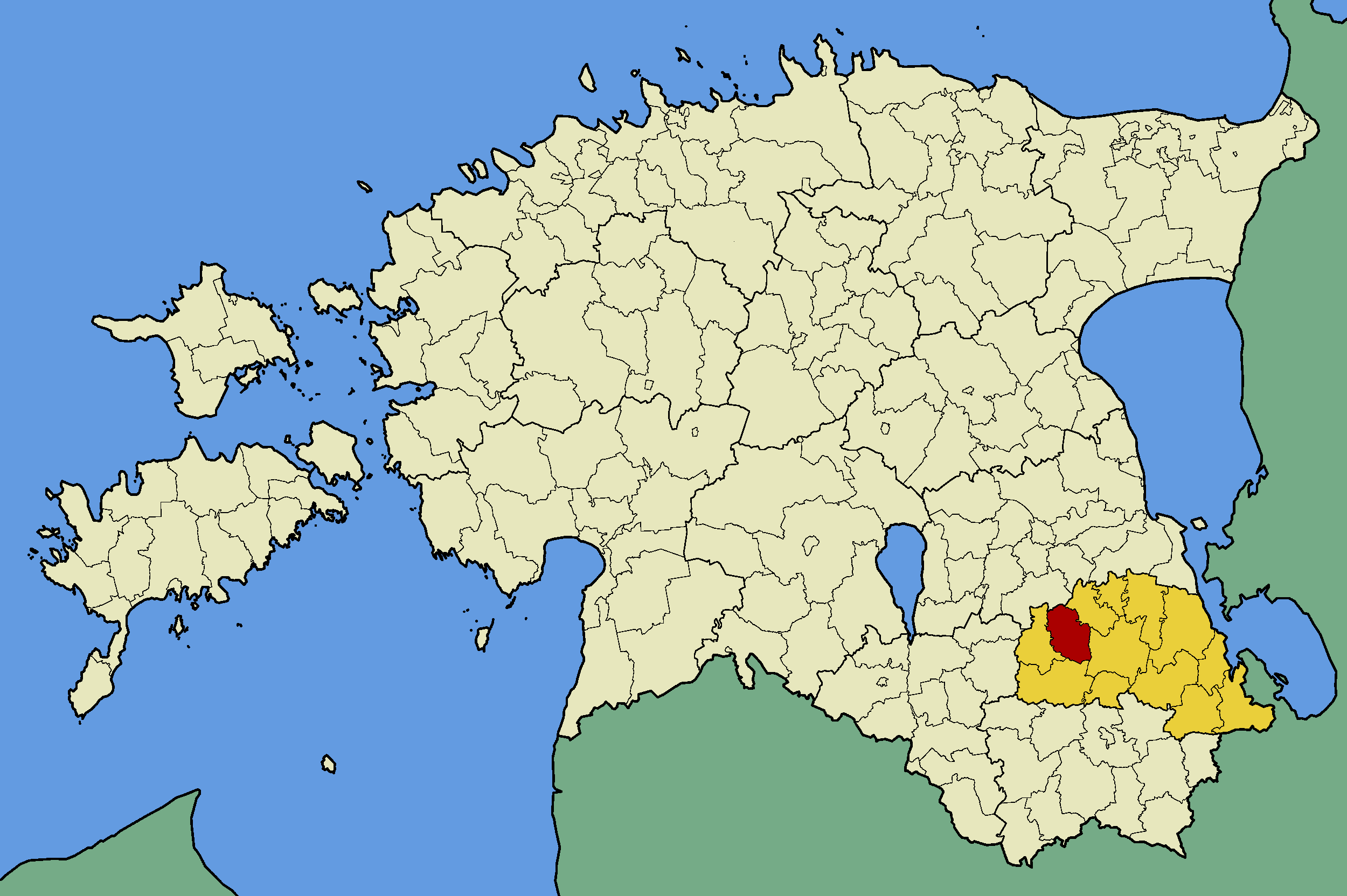 Map of Estonia with borders of municipalities (parishes). Põlva county and Kõlleste municipality emphasized.